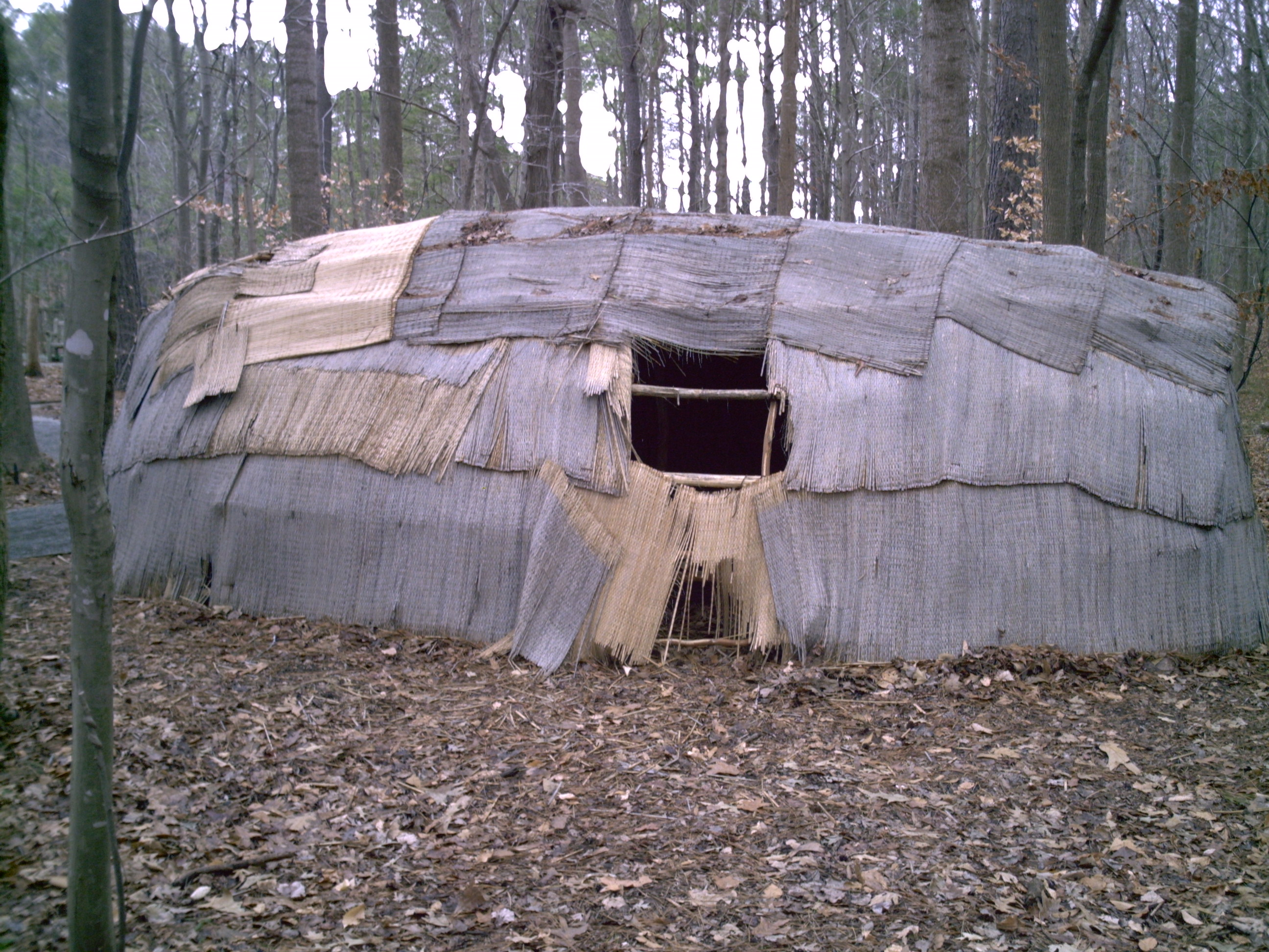 A Bark house of the Native American Chesepians — Virginia Beach, Virginia.